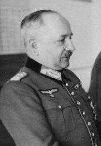 Fritz Brand in his uniform.